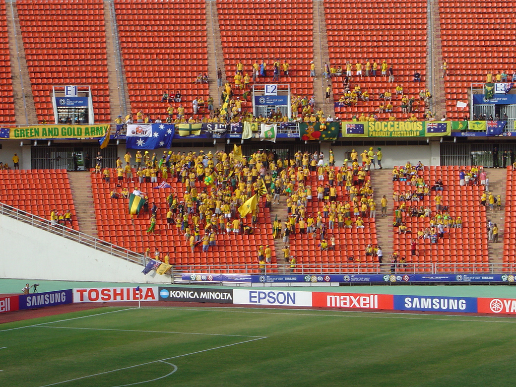 The Green and Gold Army arrive at Rajamangala Stadium in Bangkok prior to the Australia V Iraq match. Iraq won 3:1